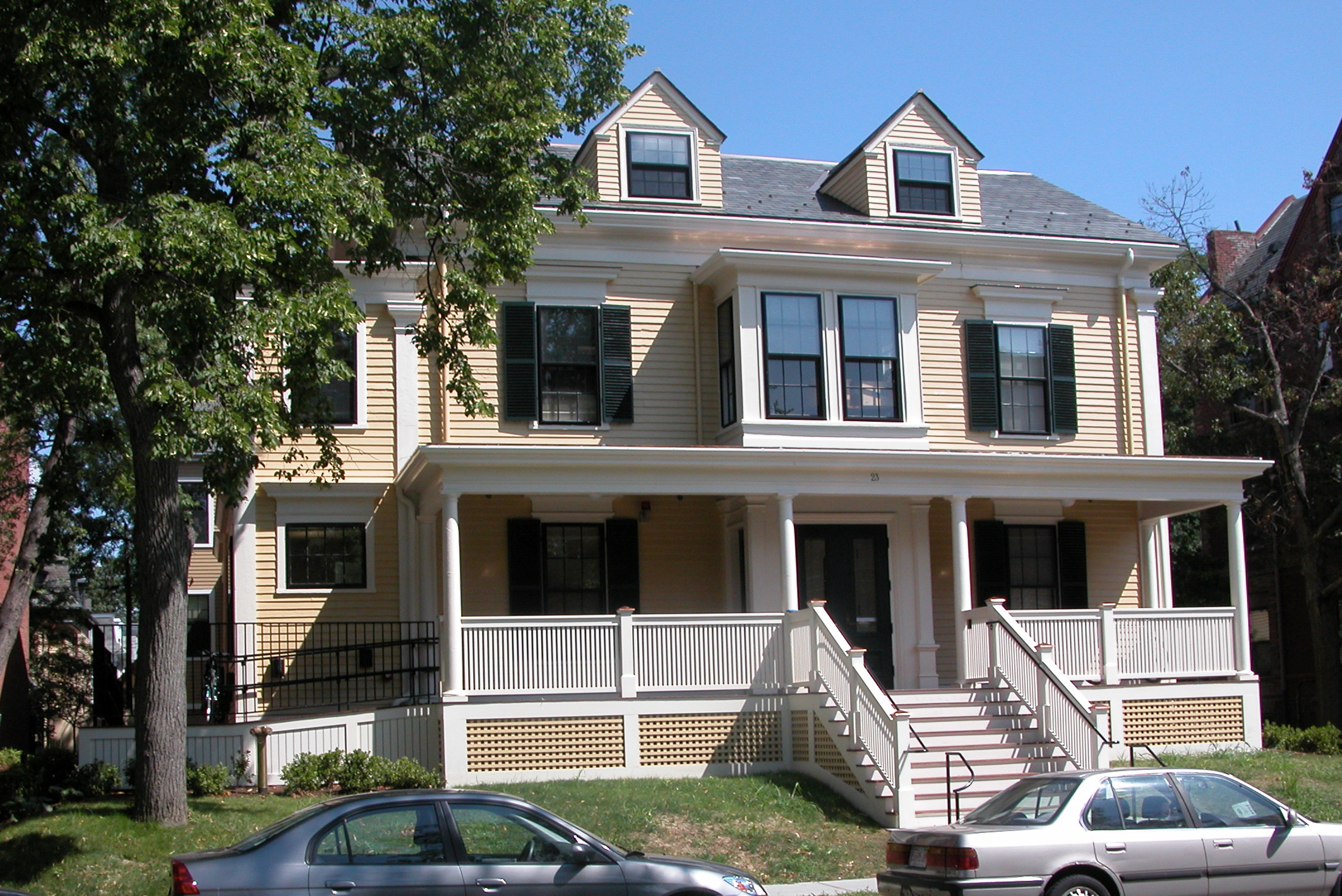 Berkman Center for Internet and Society at Harvard, 23 Everett in Cambridge, Mass., USA